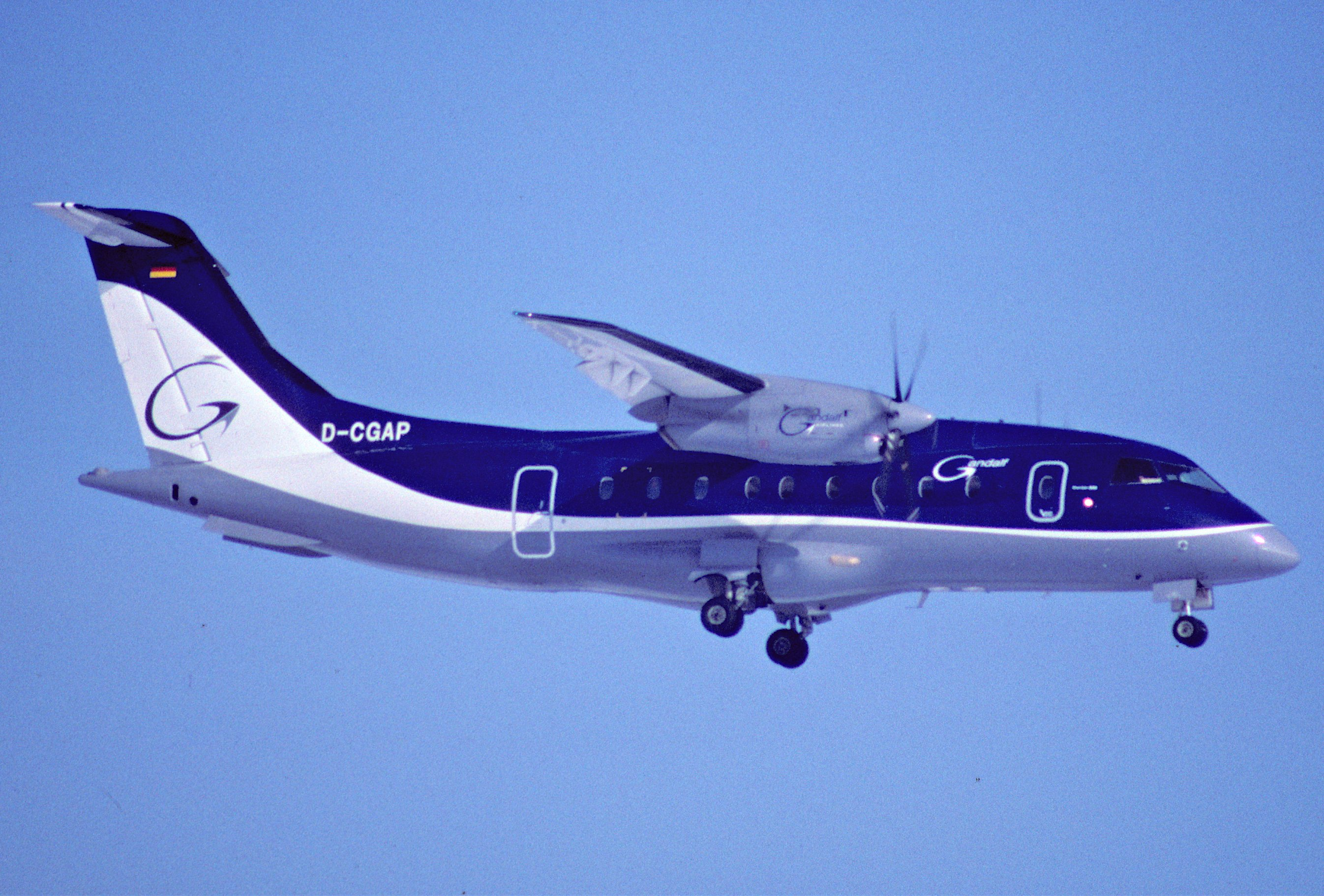 Built in 1999, delivered to Gandalf as I-GANL in August 1999, later OE-LKH with Air Alps Aviation and D-CTOB with Cirrus Airlines. The airliner was damaged beyond repair after overrunning the runway at Mannheim (MHG) in March 2008...